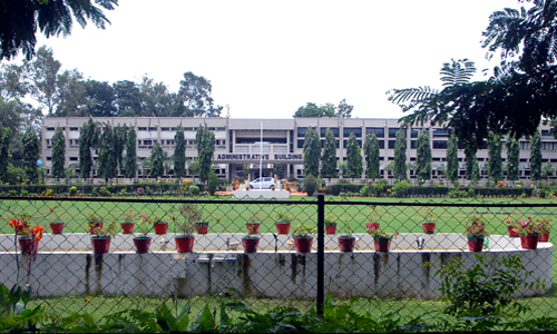 SVNIT